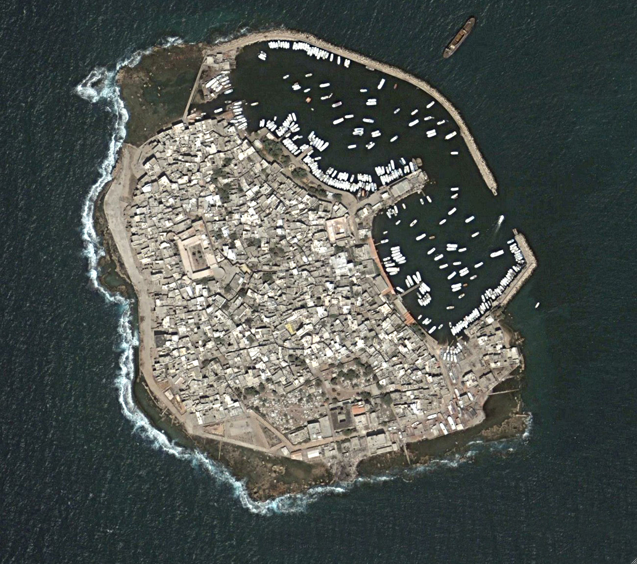 Island Ruad (former Arwad) Syria